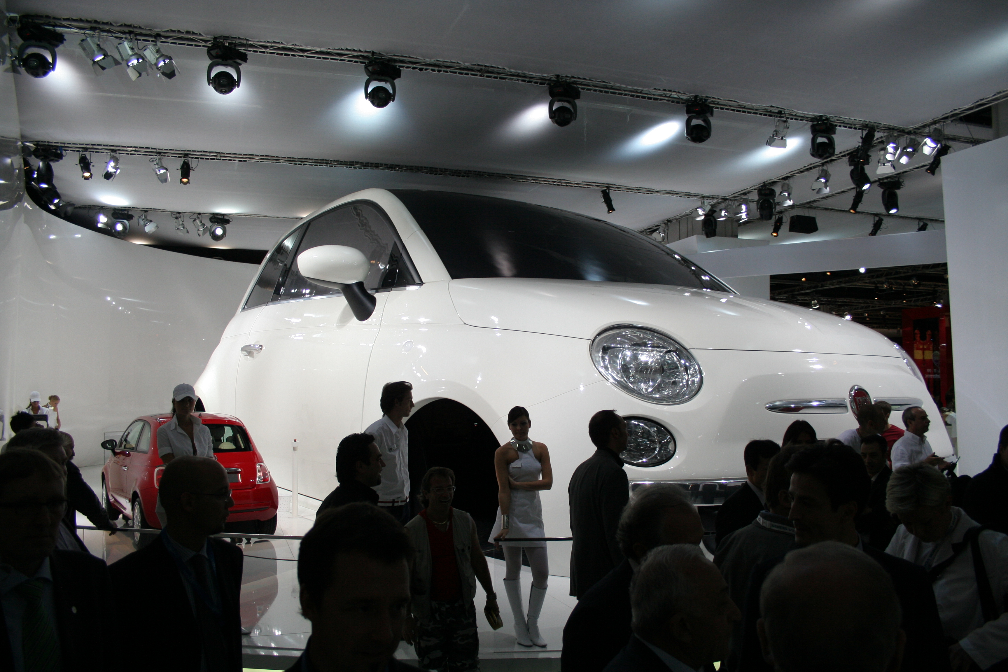 Image from IAA 2007 in Frankfurt am Main